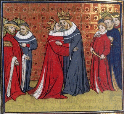 Edward I of England and Philip IV of France.